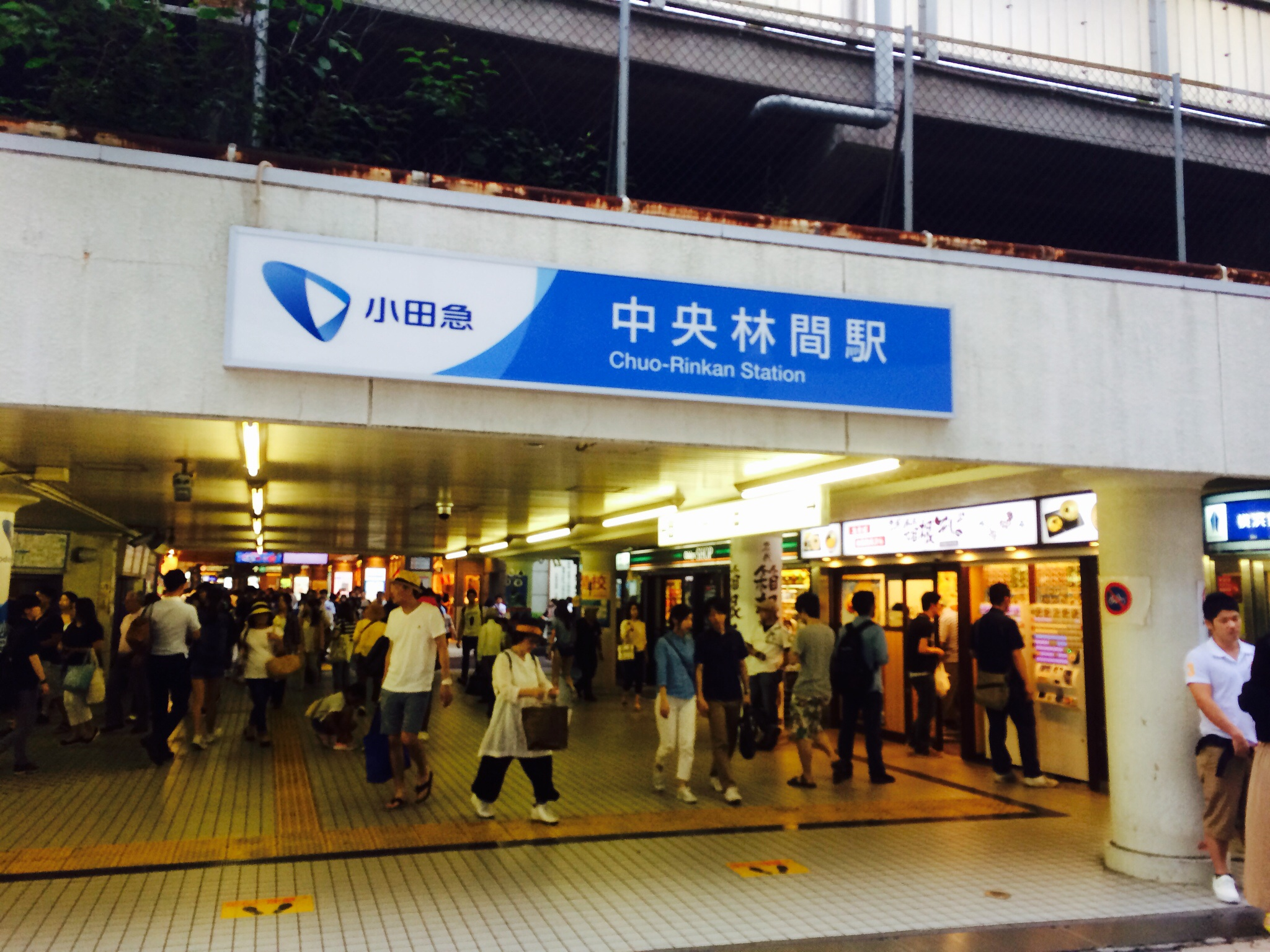 Chuo-Rinkan Station on the Odakyu Enoshima Line